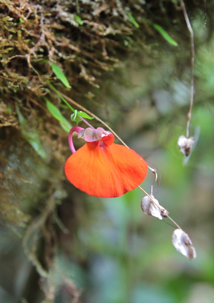 Utricularia campbelliana. Roraima, Venezuela